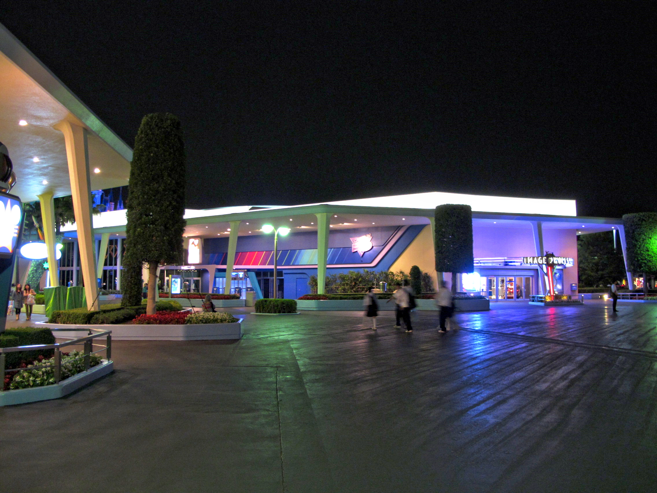 Tokyo Disneyland Captain EO Night View